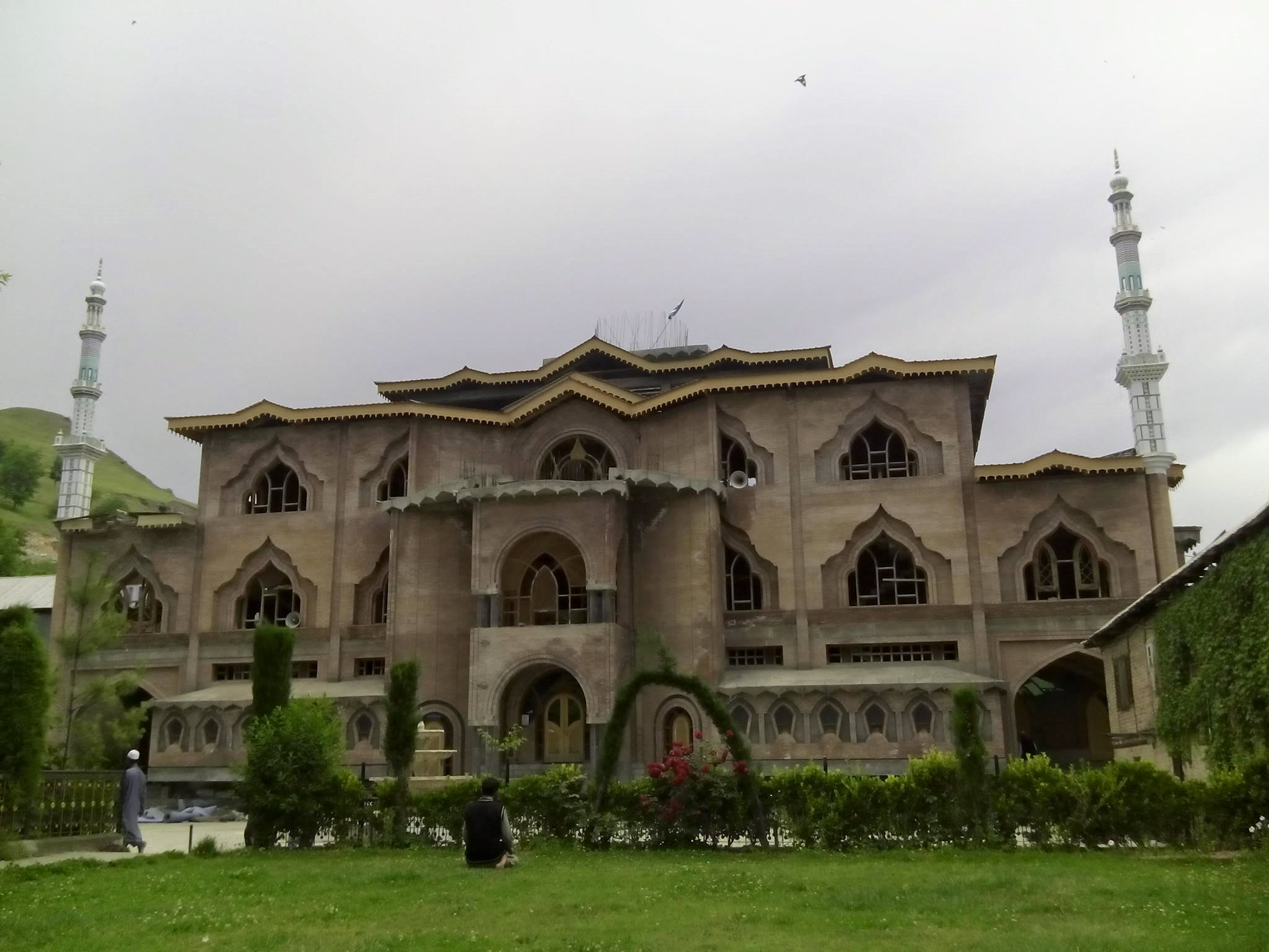 Congregational mosque of Beerwah, Budgam